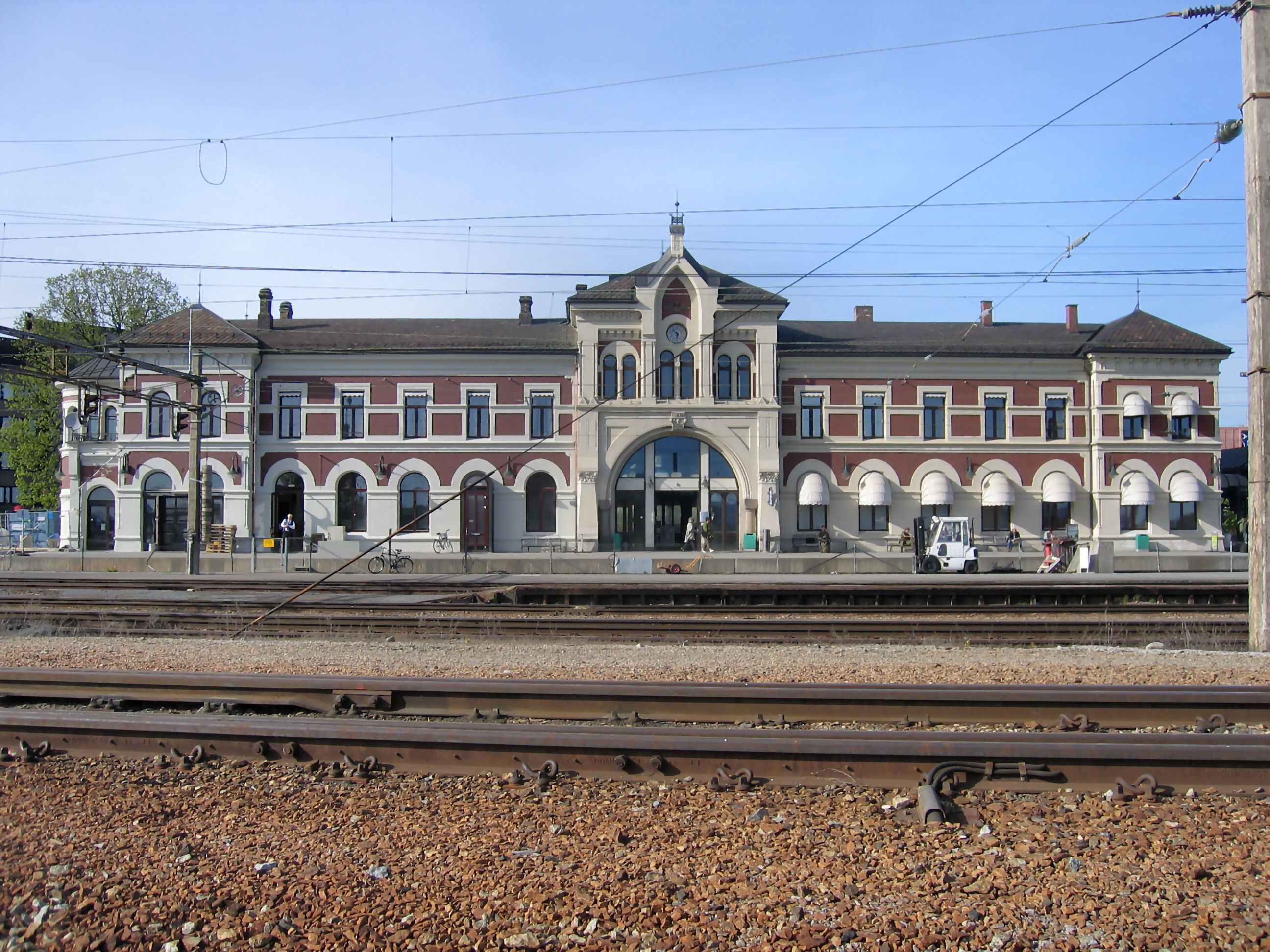 Hamar train station, Norway. Buildt in 1896.